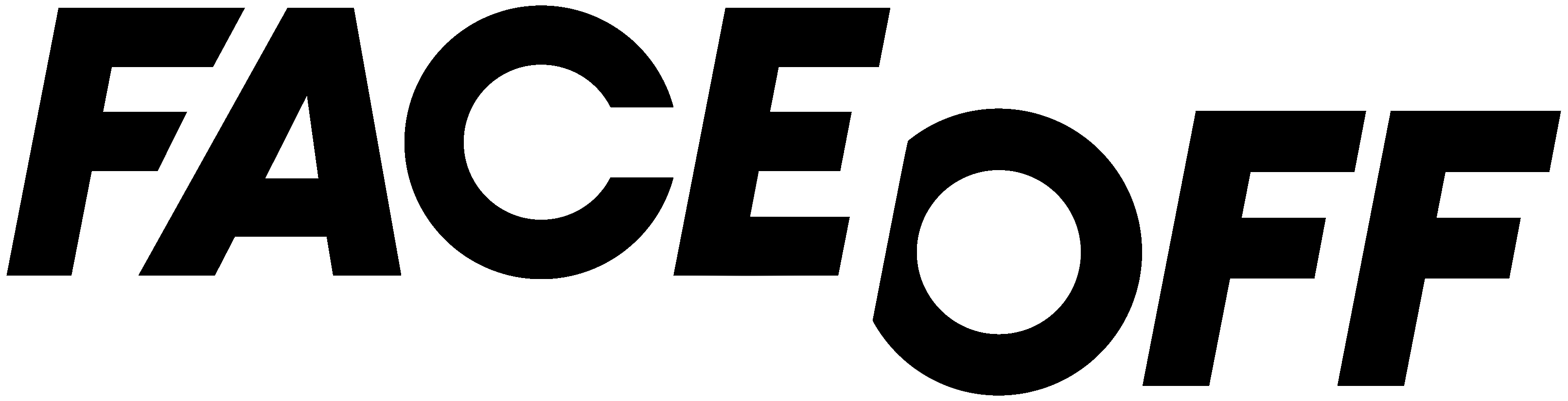 Original logo of Syfy's 'Face Off